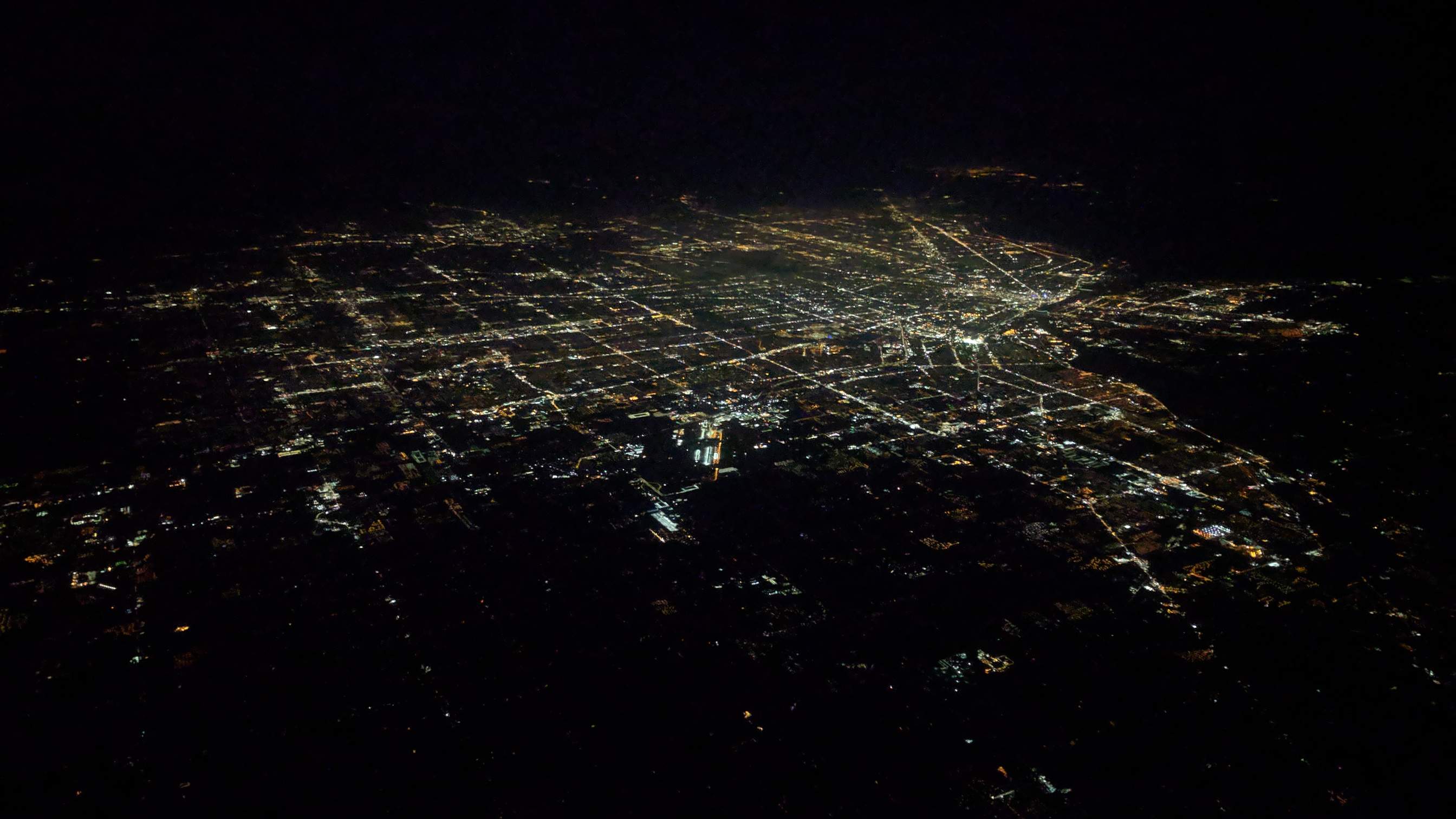 Nighttime aerial view of Detroit, Michigan, and vicinity, from the south, September 2018